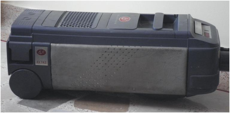 Vacuum cleaner brand Lux model D-742 of year 2002